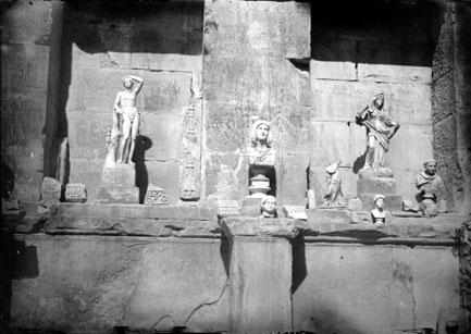 A photograph of the Temple de Diana (Nimes) by Eugèni Trutat.